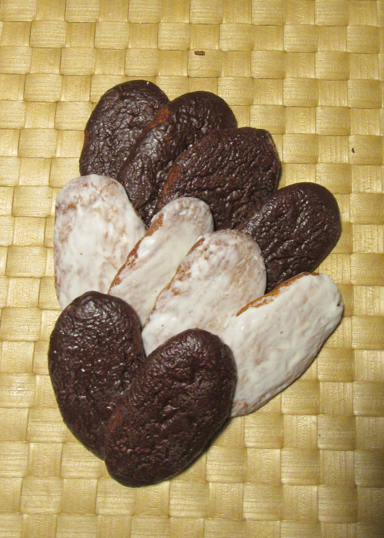 Susumelle, tipical calabrian cake